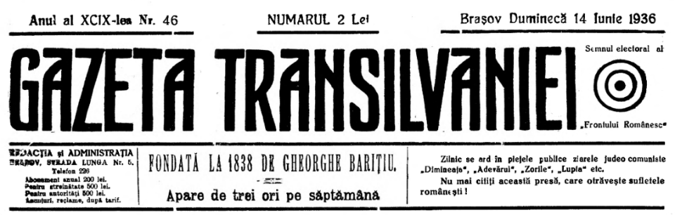 Nameplate of the Romanian nationalist newspaper, Gazeta Transilvaniei, Issue 46 (June 14), 1936; featuring the electoral symbol of Alexandru Vaida-Voevod's Romanian Front. The masthead also urges Romanians to boycott the "Judaeo-communist newspapers Dimineața, Adevărul, Zorile [and] Lupta".